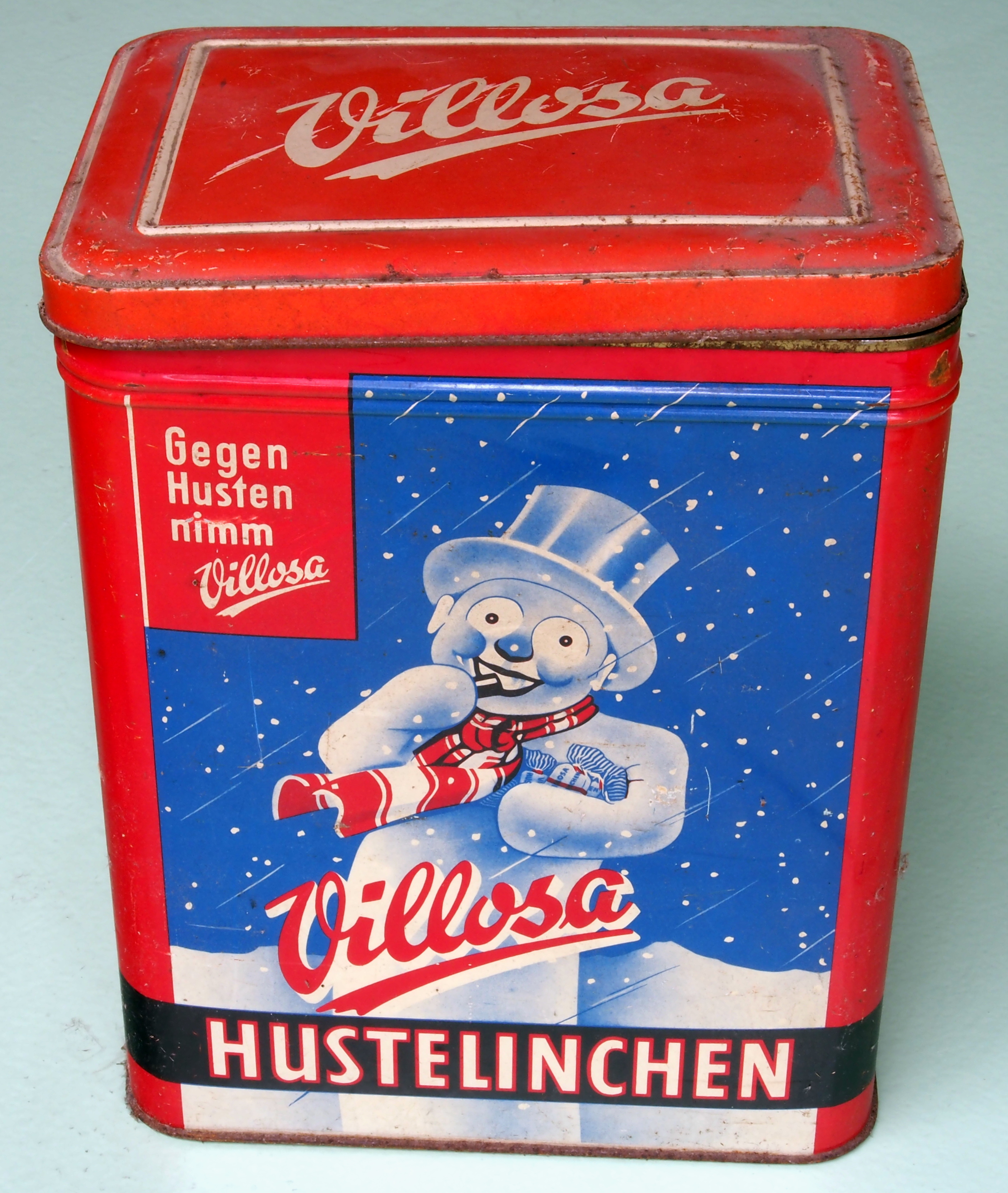 Very old product that was produced a long time ago and/or the company does not exist anymore! Vilosa Hustelinchen.